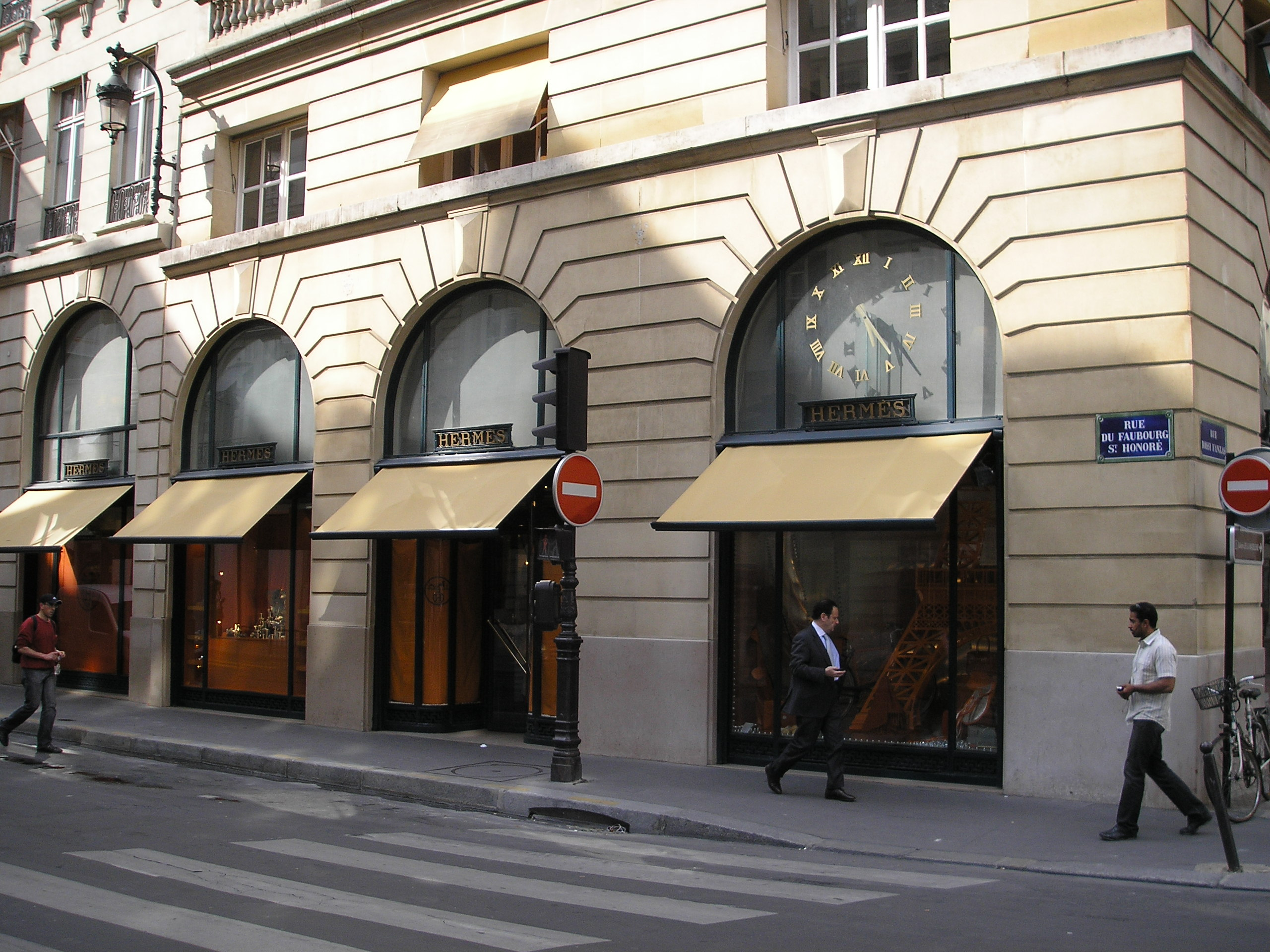 Hermes shop in Paris, rue Fabourg St. Honoré.